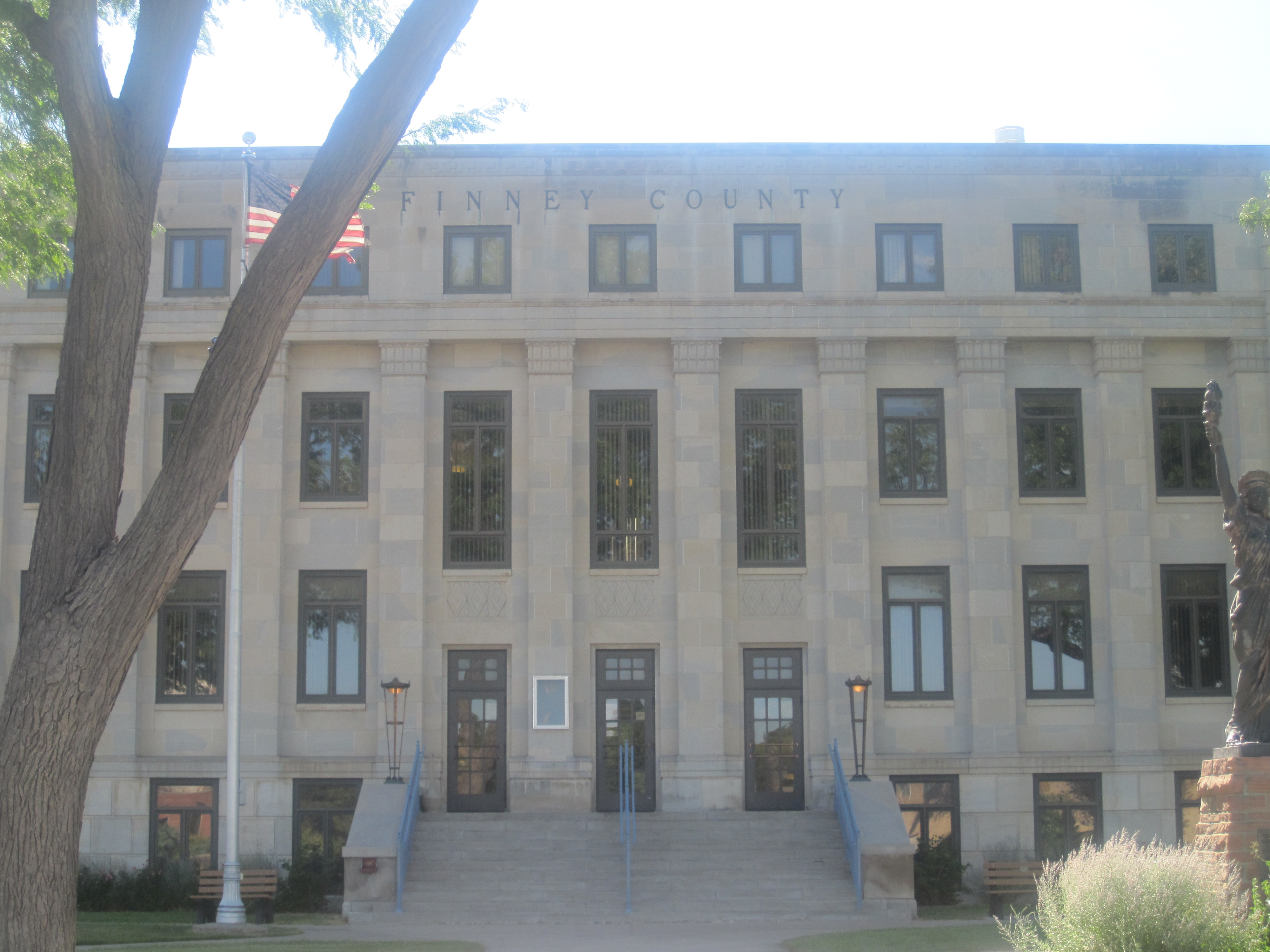 I took photo with Canon camera in Garden City, KS.